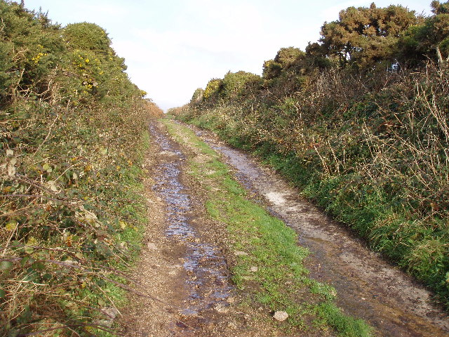 Farm lane to Trevegean. Just by Nanquidno Downs, the lane leads across to Trevegean Farm and, heading northwards, on to St Just.